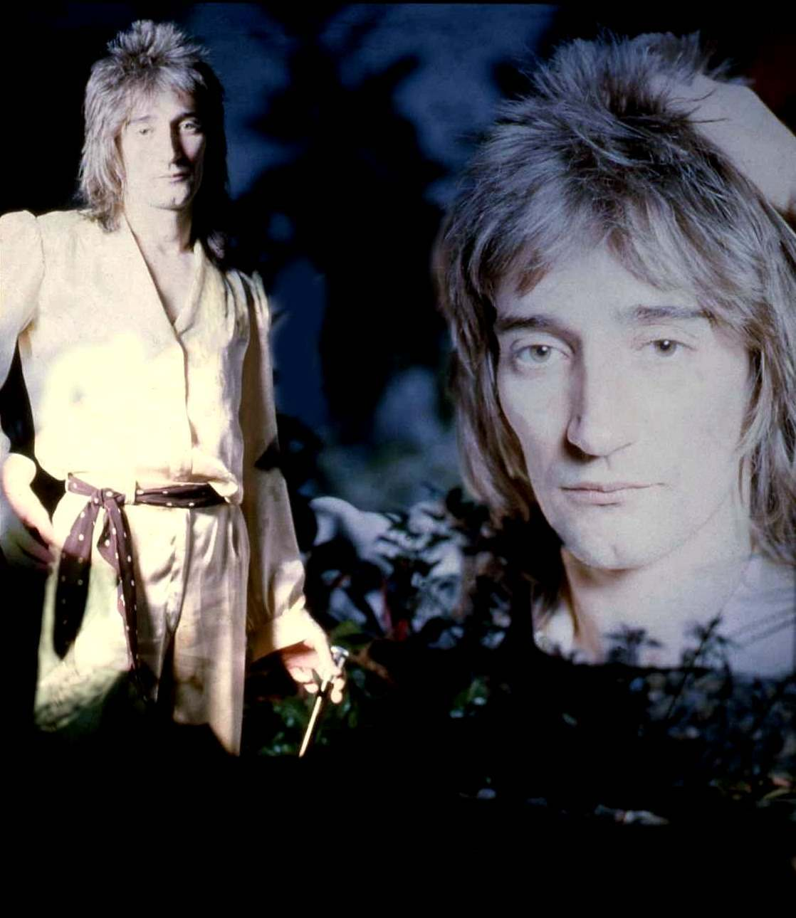 Portrait of Rod Stewart taken in his London home.